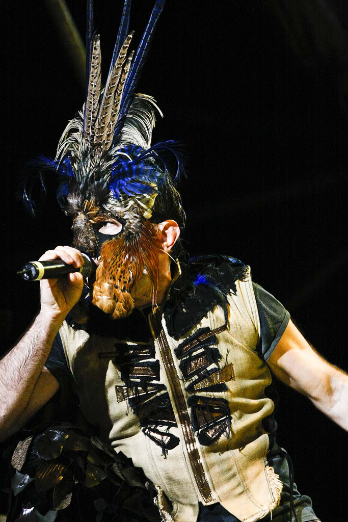 Bruce Dickinson in Costa Rica 2008.